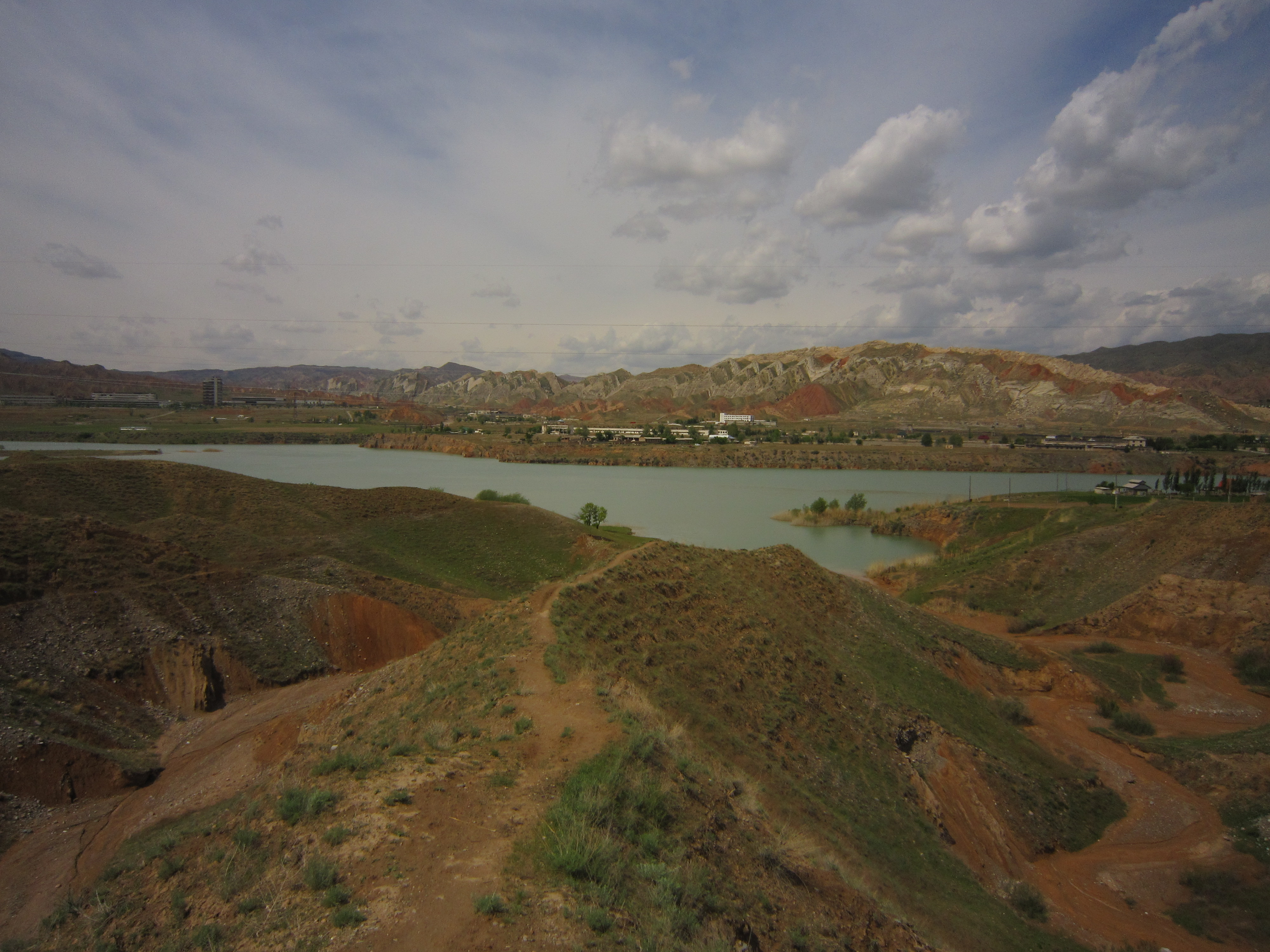 Shamaldysai Reservoir near Tashkömür